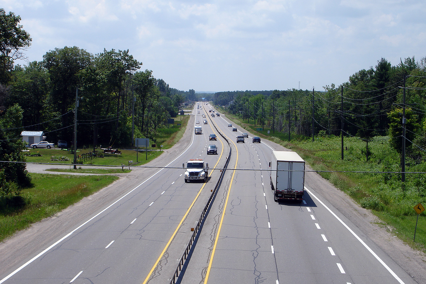 King's Highway 11, looking south from overpass near South Sparrow Lake Road/Goldstein Road right-in/right-out exits in Township of Severn, Simcoe County, Ontario, Canada. Image taken by me (Sonysnob). Similar images available here